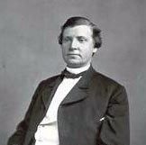 Samuel L. Warner, US Representative from Connecticut